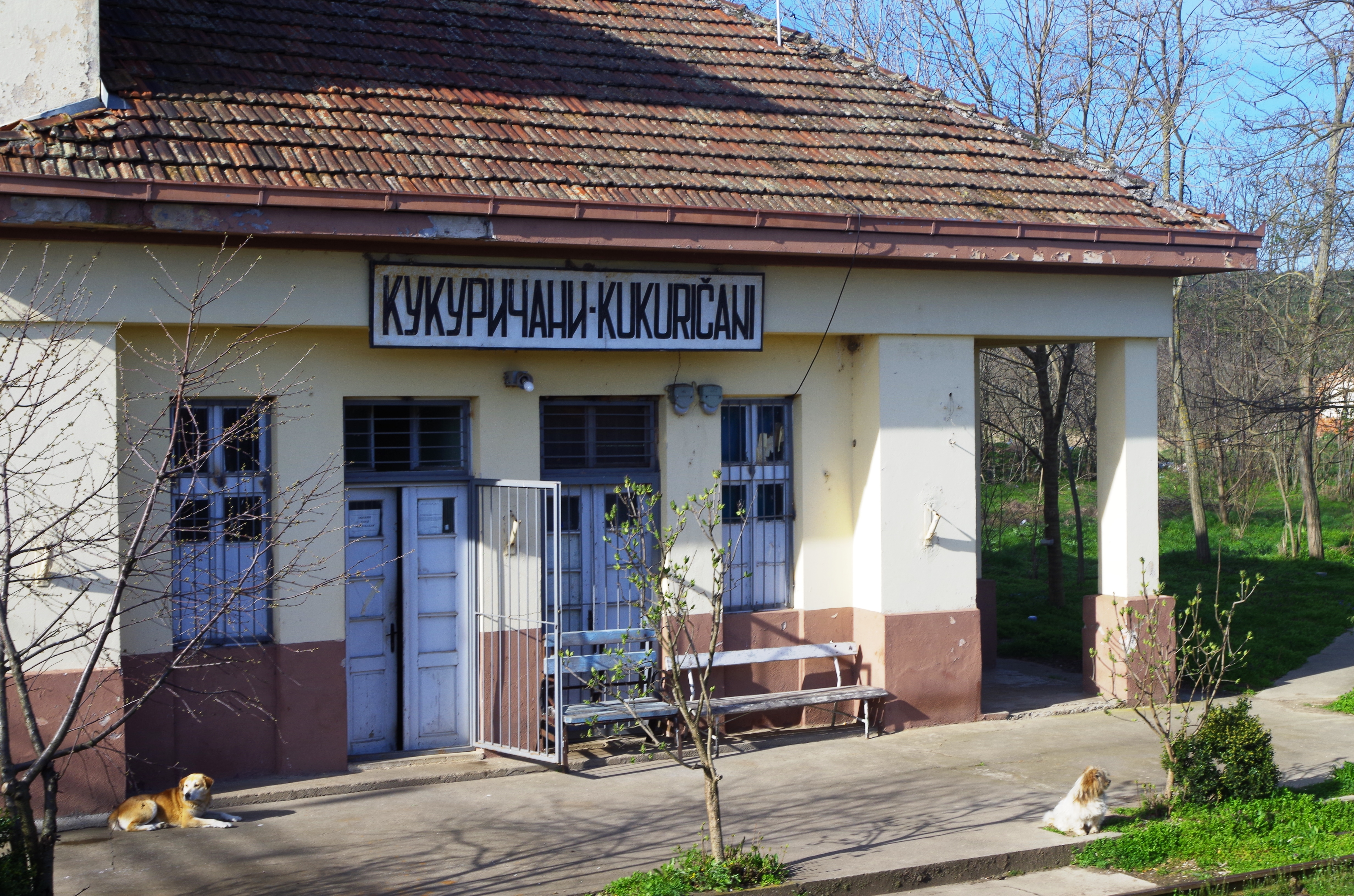 Train station in Kukuričani